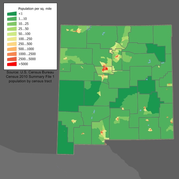 New Mexico state population density map based on Census 2010 data. See the data lineage for a process description.